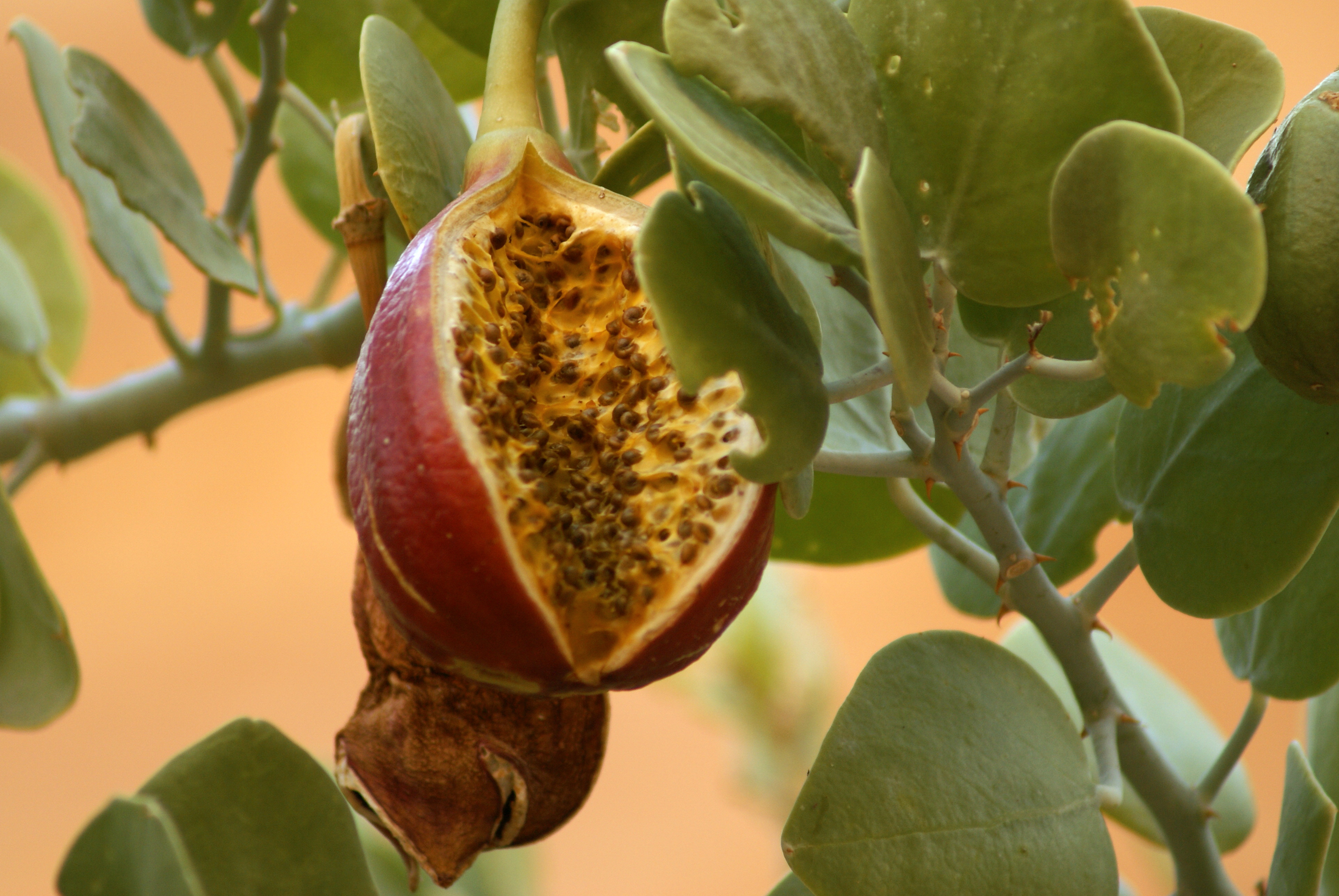 The ripe, burst-open fruit of a caper (Capparis cartilaginea) shrub on the Sinai Peninsula, Egypt (exact location unknown). The fruit has burst open, showing the black seeds and yellow fruit flesh. The height of the fruit was approximately 7 centimeters.